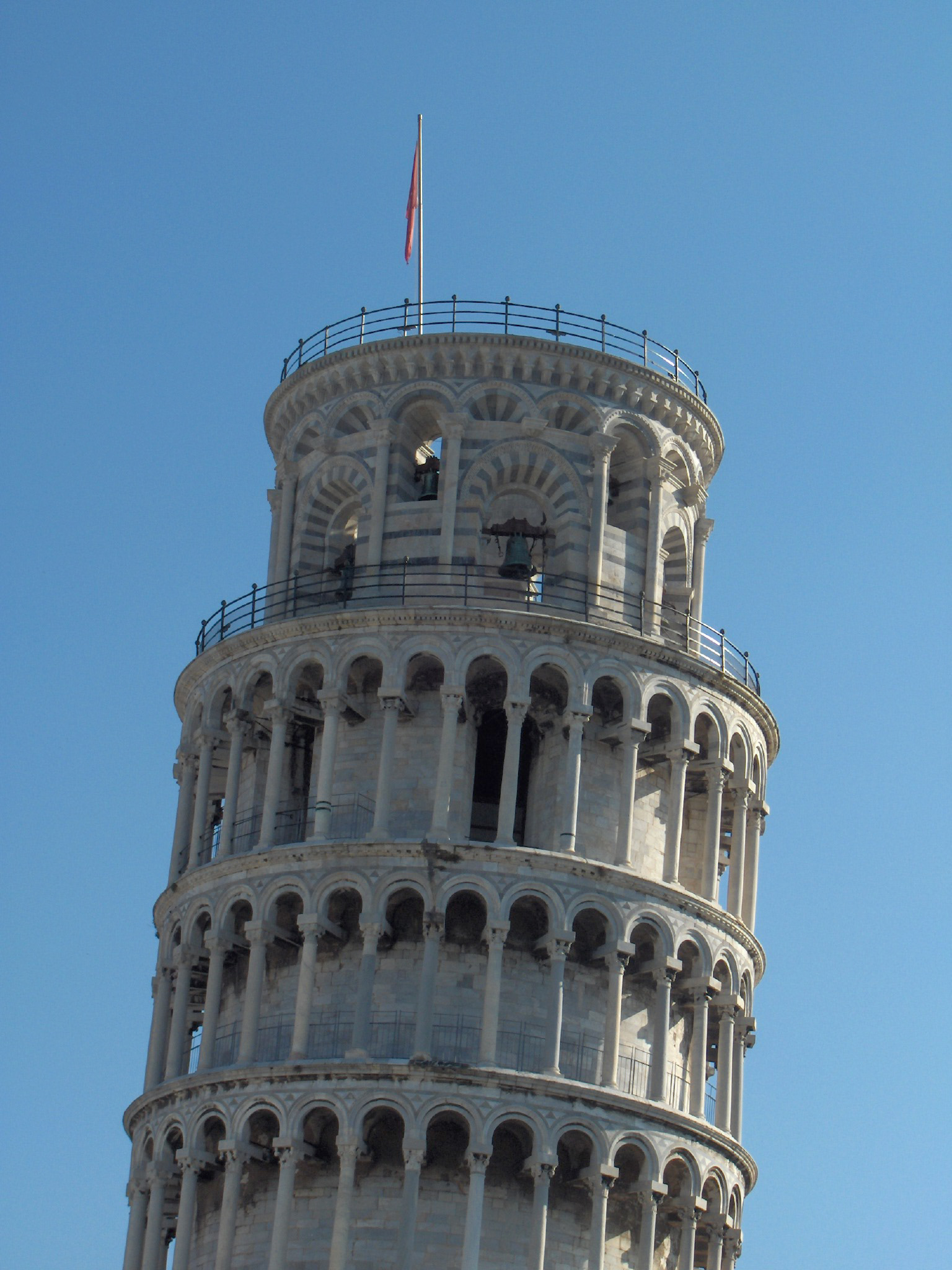 Leaning tower of Pisa, Italy Own photo - photo made by Georges Jansoone on 10 October 2005